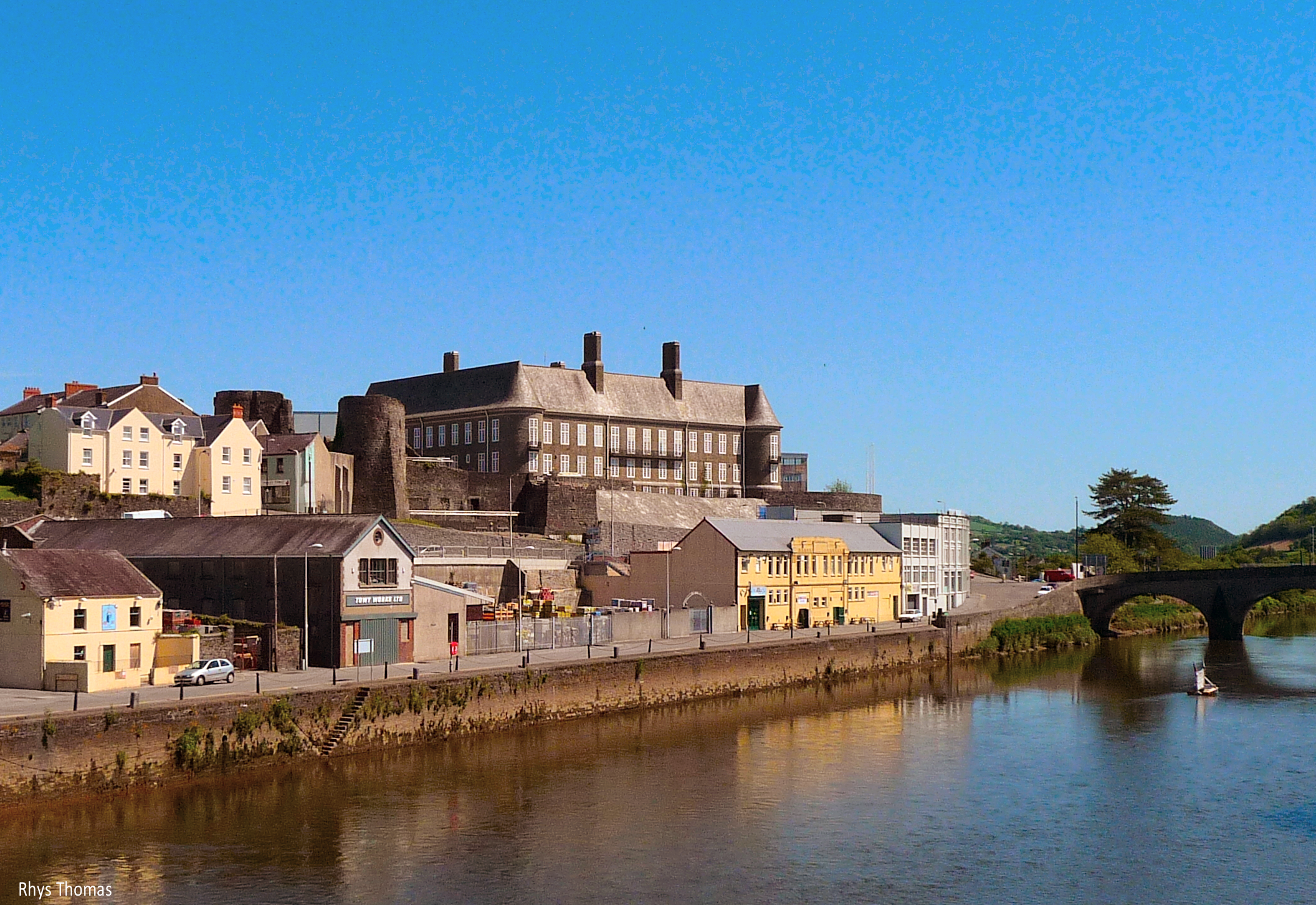 Carmarthenshire County Hall viewed from across the River Towy